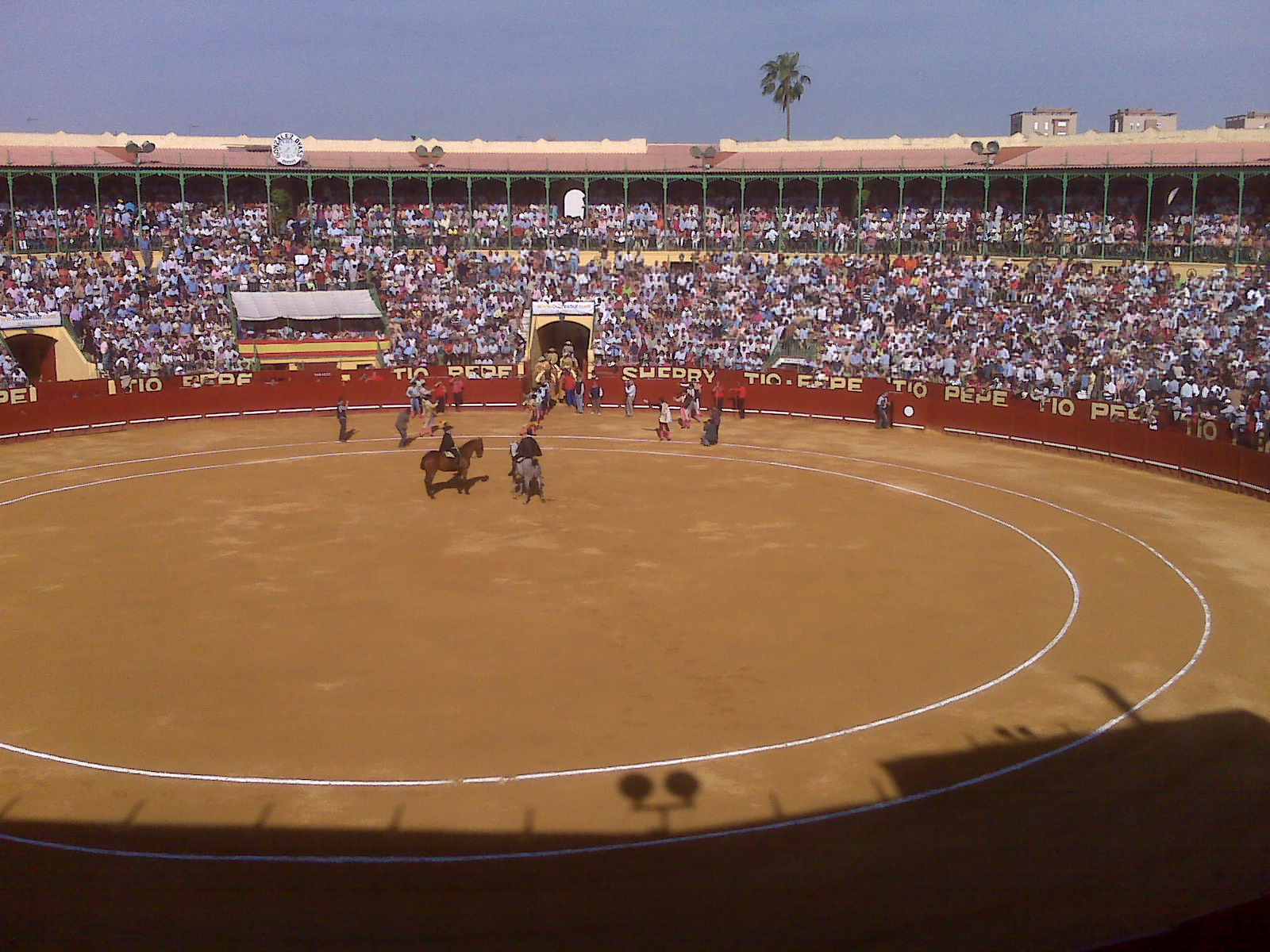 Jerez de la Frontera Bullring (Andalusia, Spain)